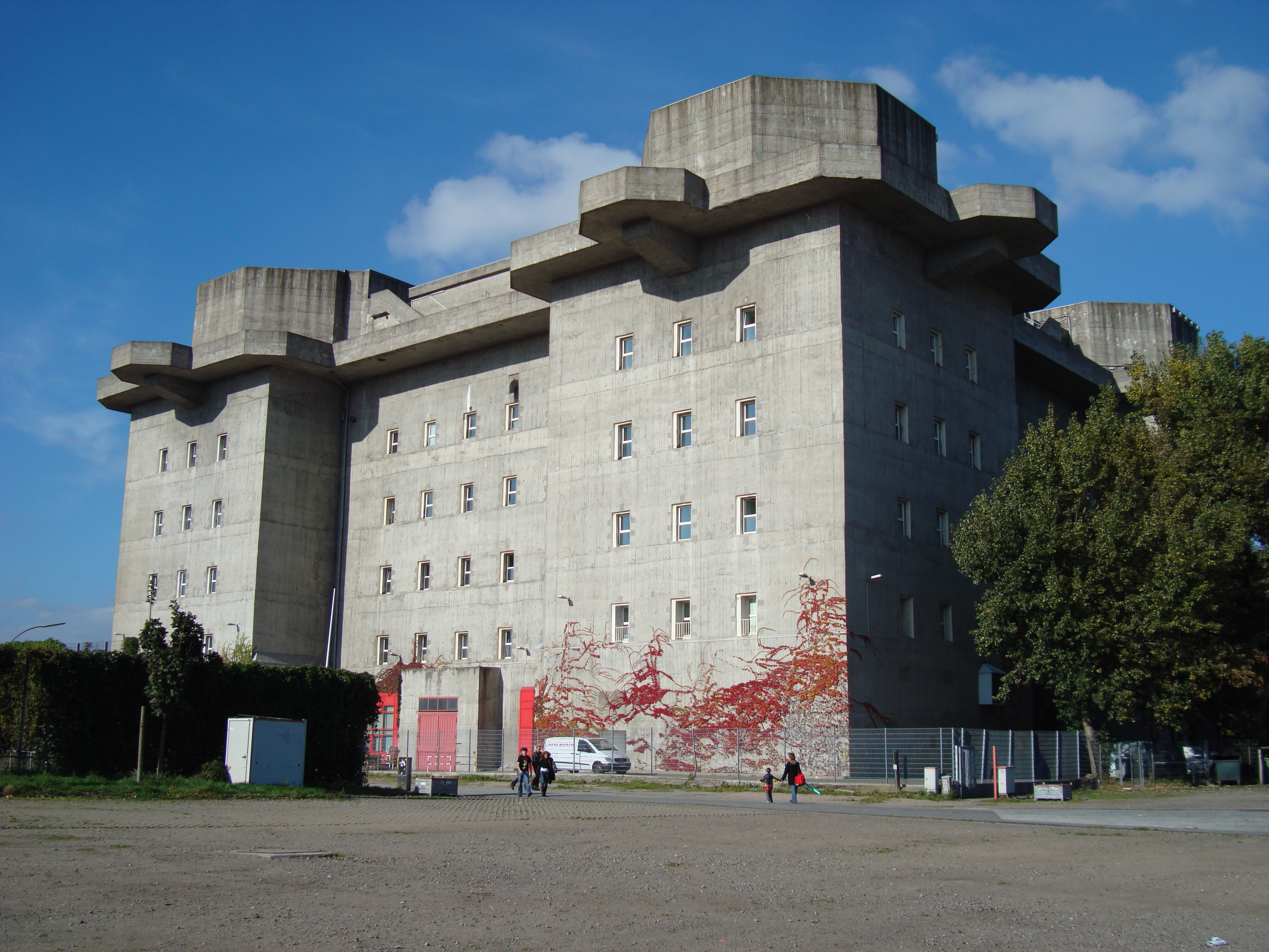 "Bunker, Heiligengeistfeld in Hamburg, Germany. The windows were sawn in the 19'80s. First drilled and then sawn.